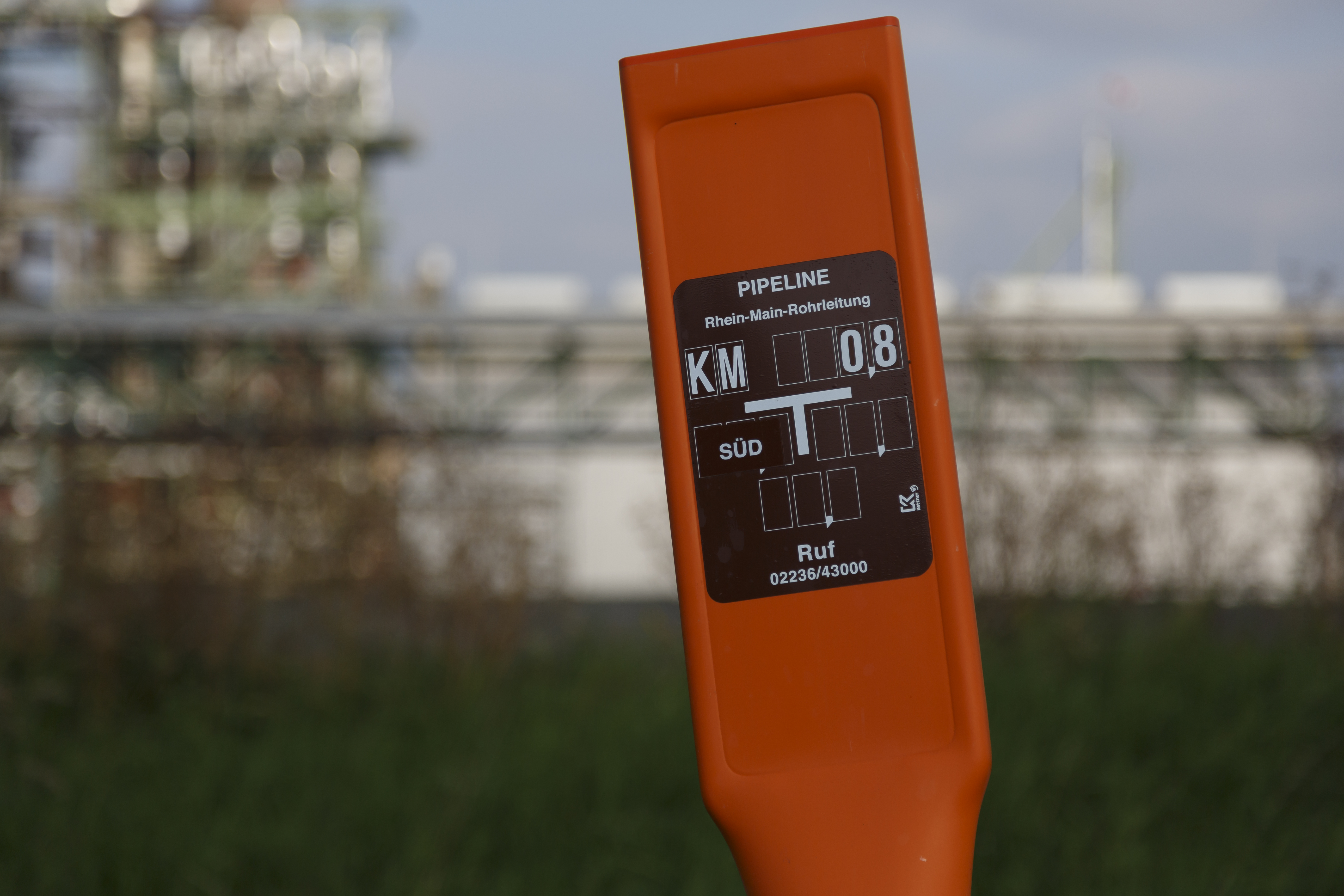 Köln-Godorf, Germany: Pipeline marker of Rhein-Main-Rohrleitungstransportgesellschaft (RMR)